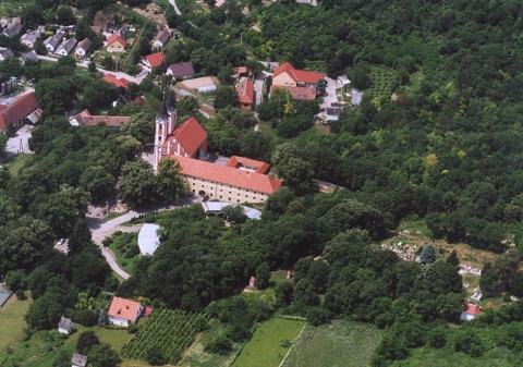 Máriagyűd, Hungary, aerialphotography